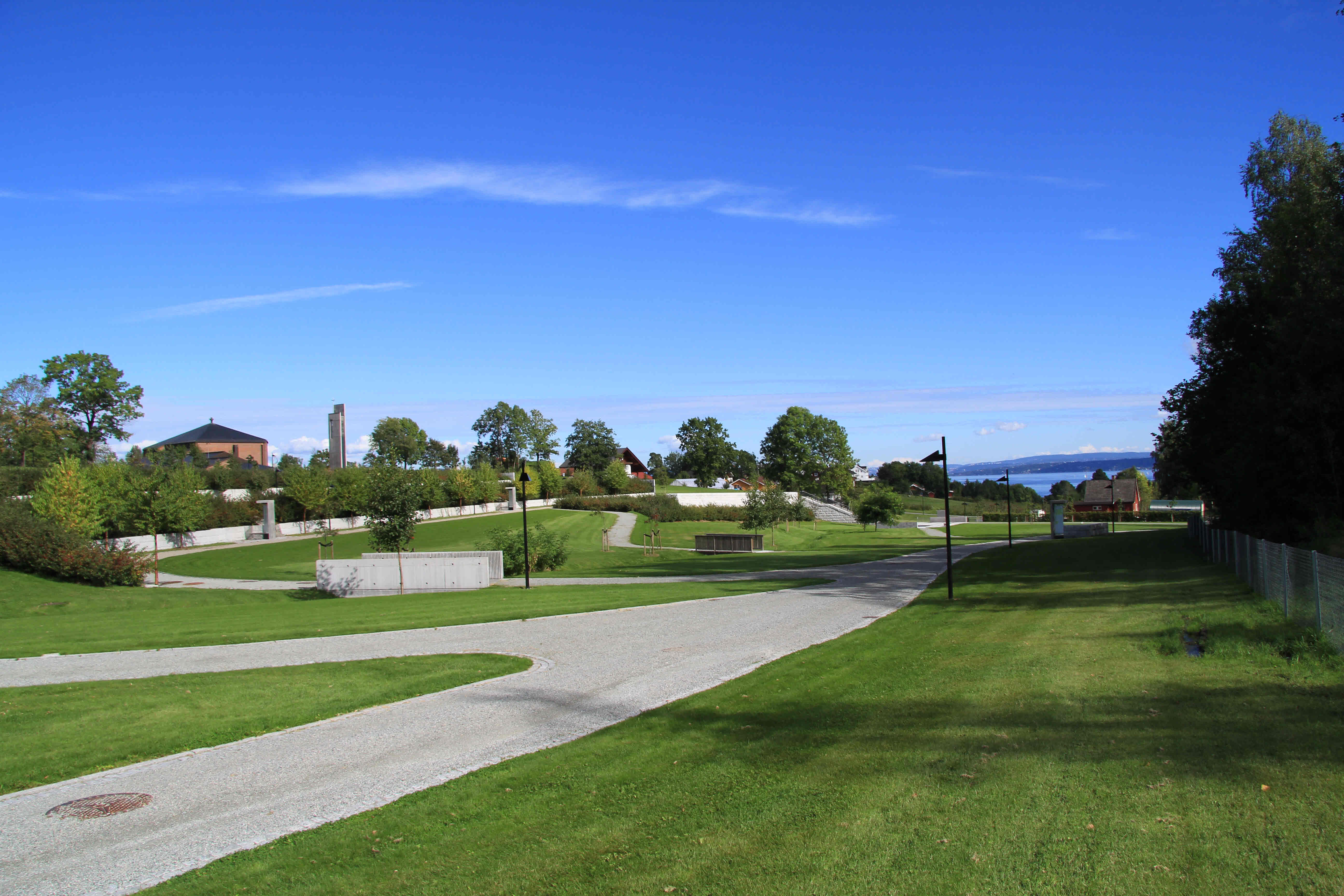 Østenstad churchyard - view towards east and the Oslofjord